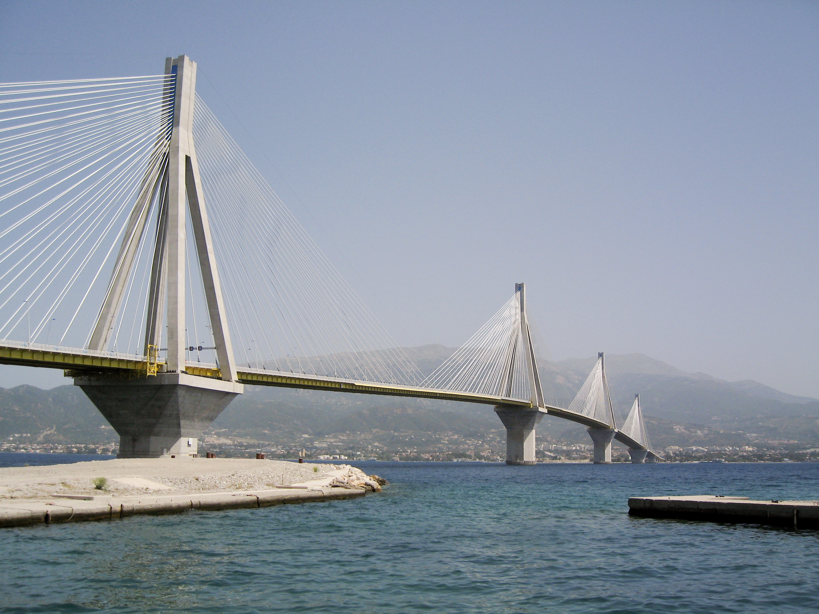 The Rio-Antirrio bridge at the west end of the Gulf of Corinth, Greece